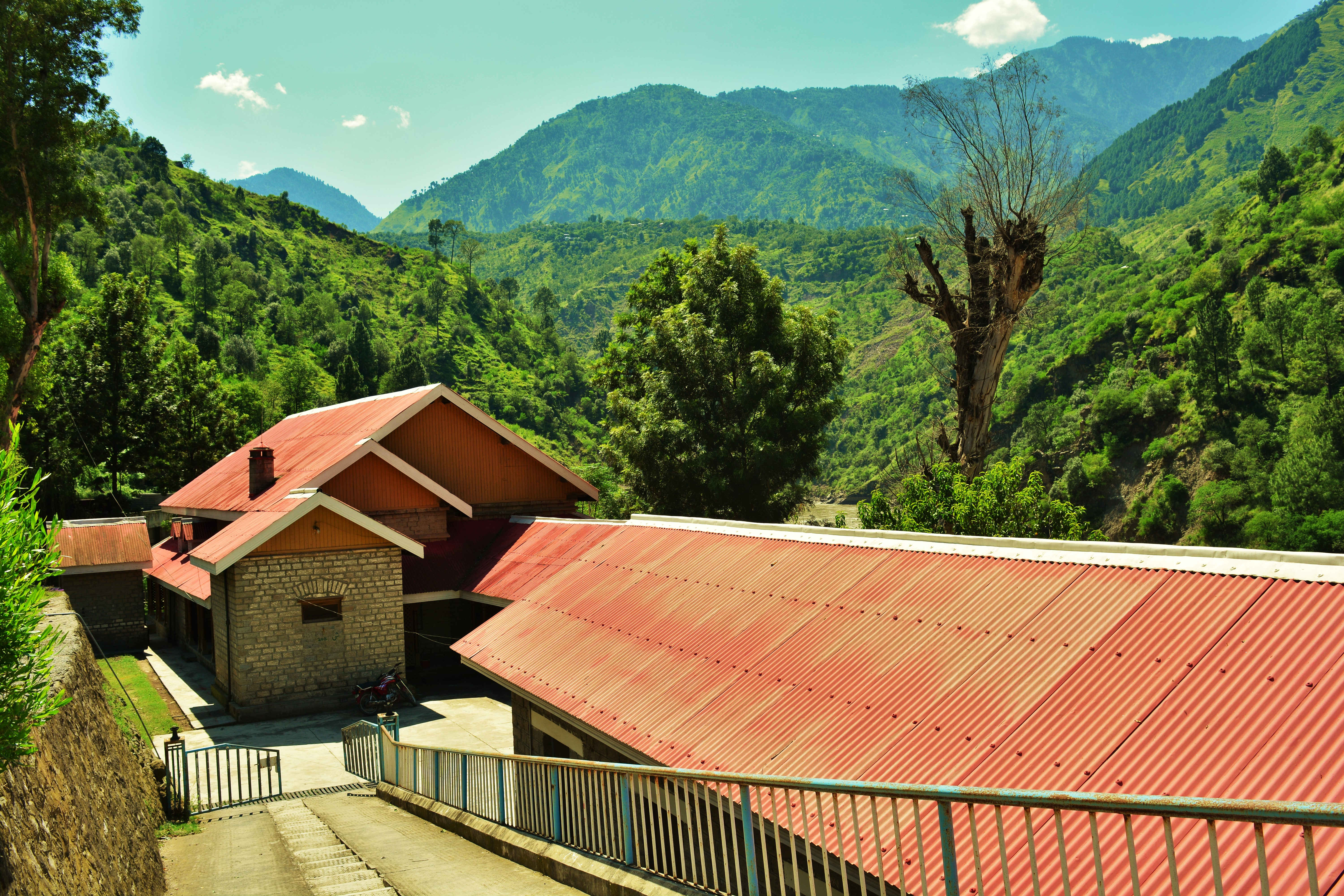 Quaid-e-Azam tourist lodge, Barsala This is a photo of a monument in Pakistan identified as the AJK-21